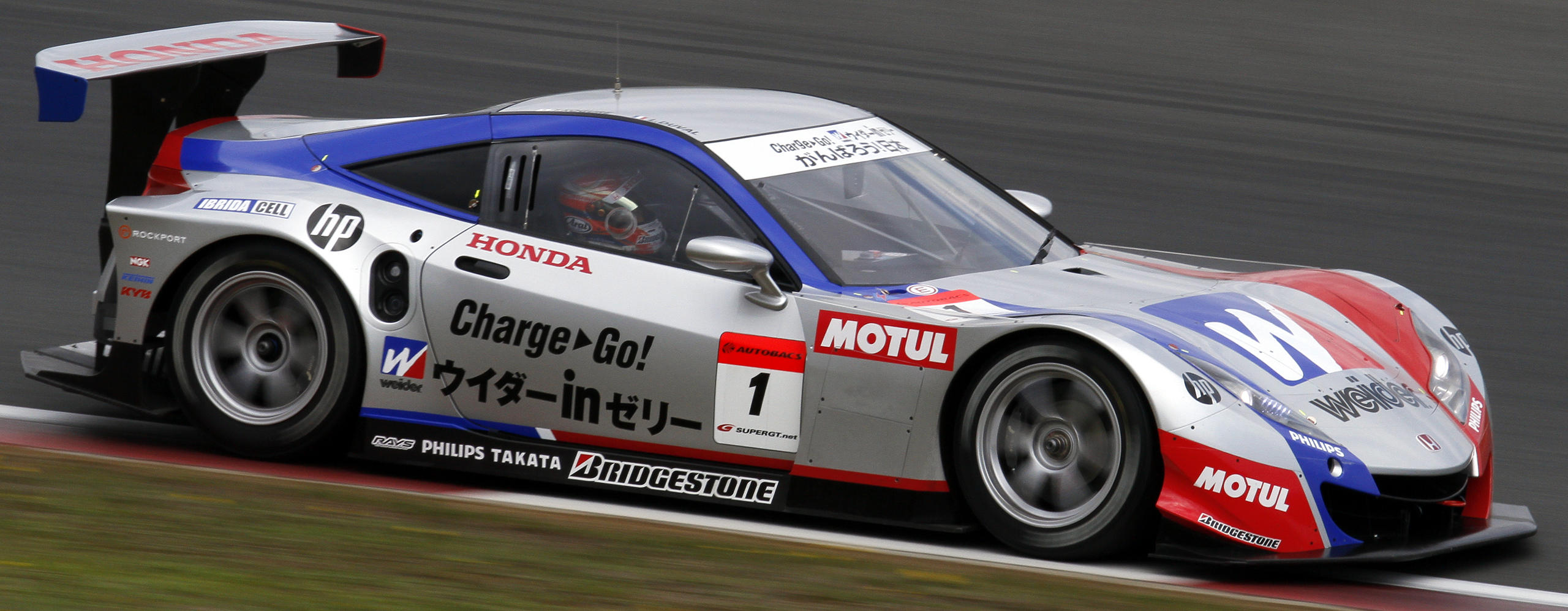 Super GT 2011 Rd.2 Fuji GT 400km: Takashi Kogure (Weider Honda Racing) driving the Honda HSV-010 GT (Weider HSV-010) during Friday test session.